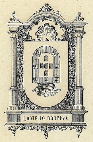 The inverted shield of the portuguese town of Castelo Rodrigo